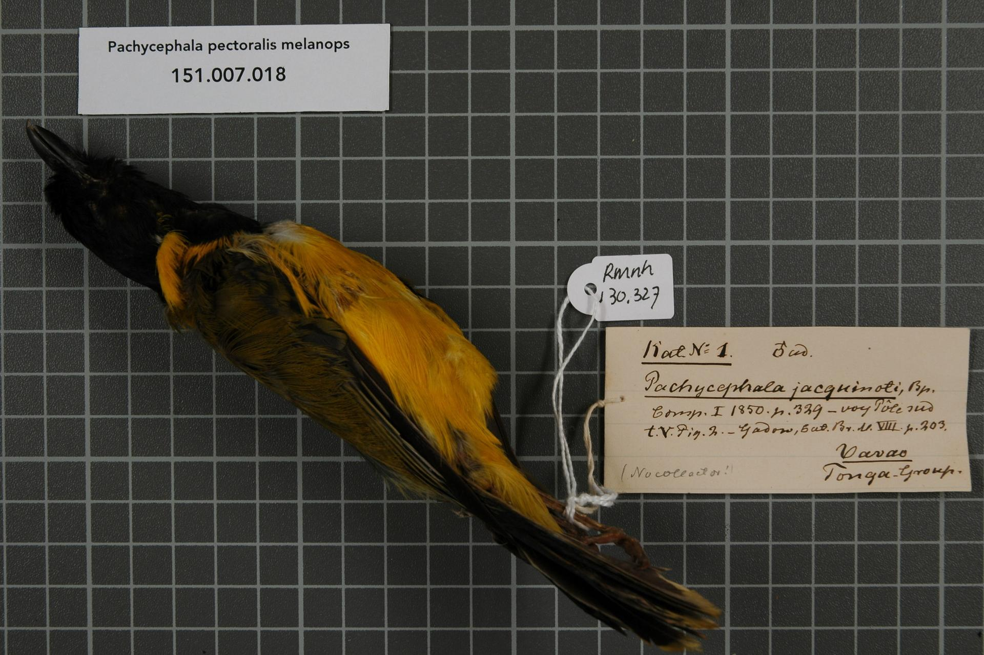 Pachycephala pectoralis melanops (Pucheran, 1853)